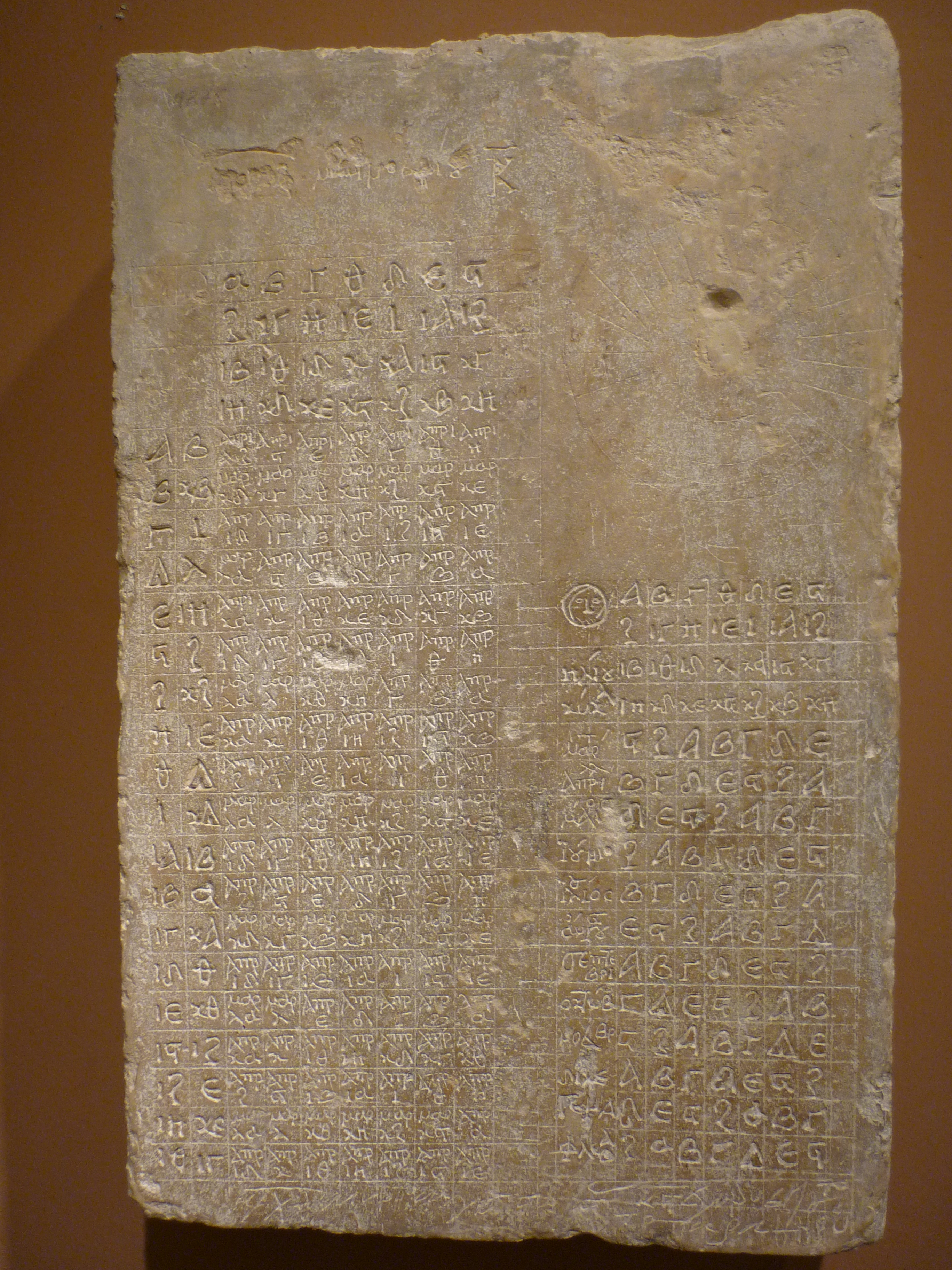 Historical Museum of Heraklion, Crete: Perpetual calendar from the village of Zou near Sitia. With this calendar the day of the week and the date of easter could be determined.